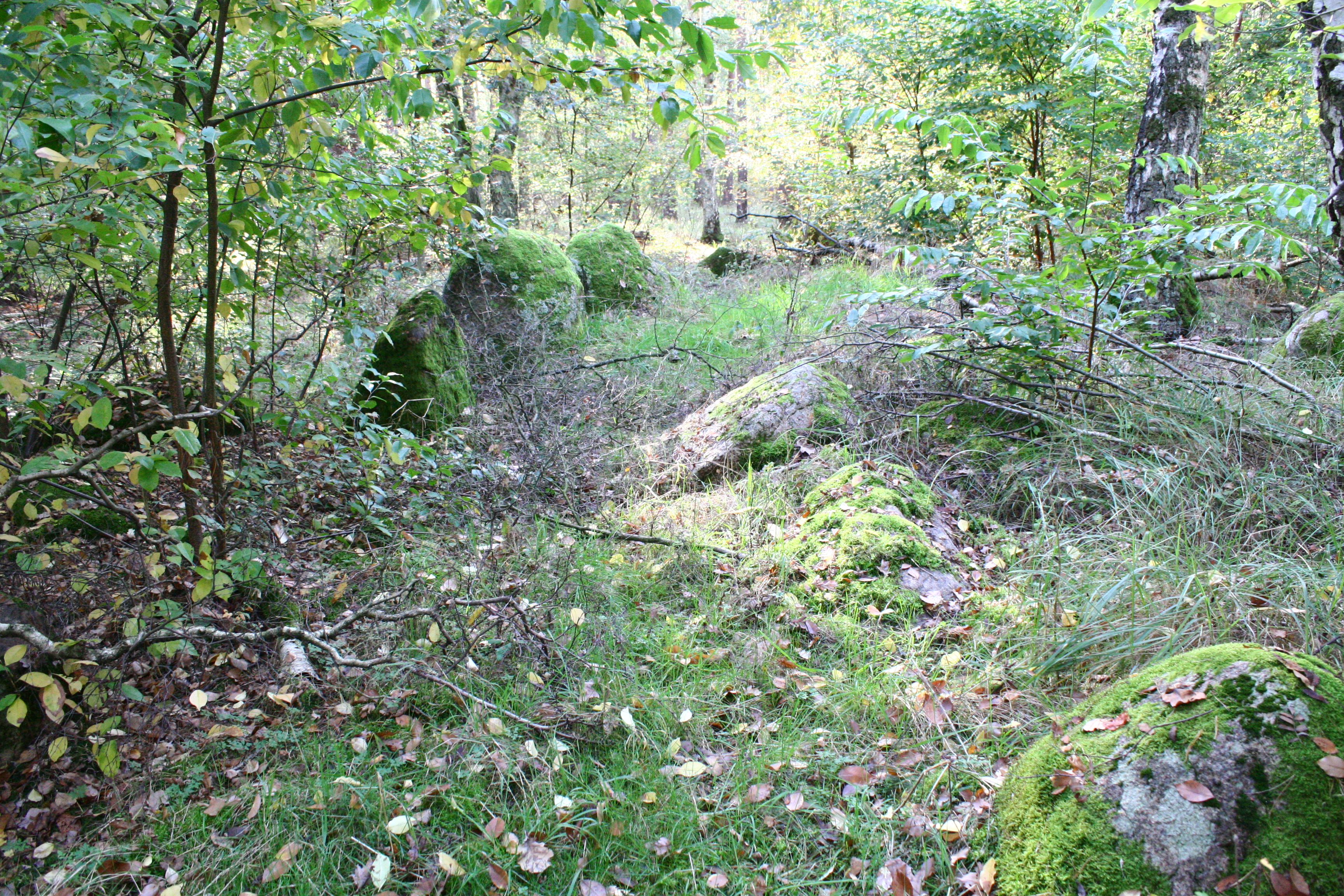 Megalithic tomb Haldensleben II 21